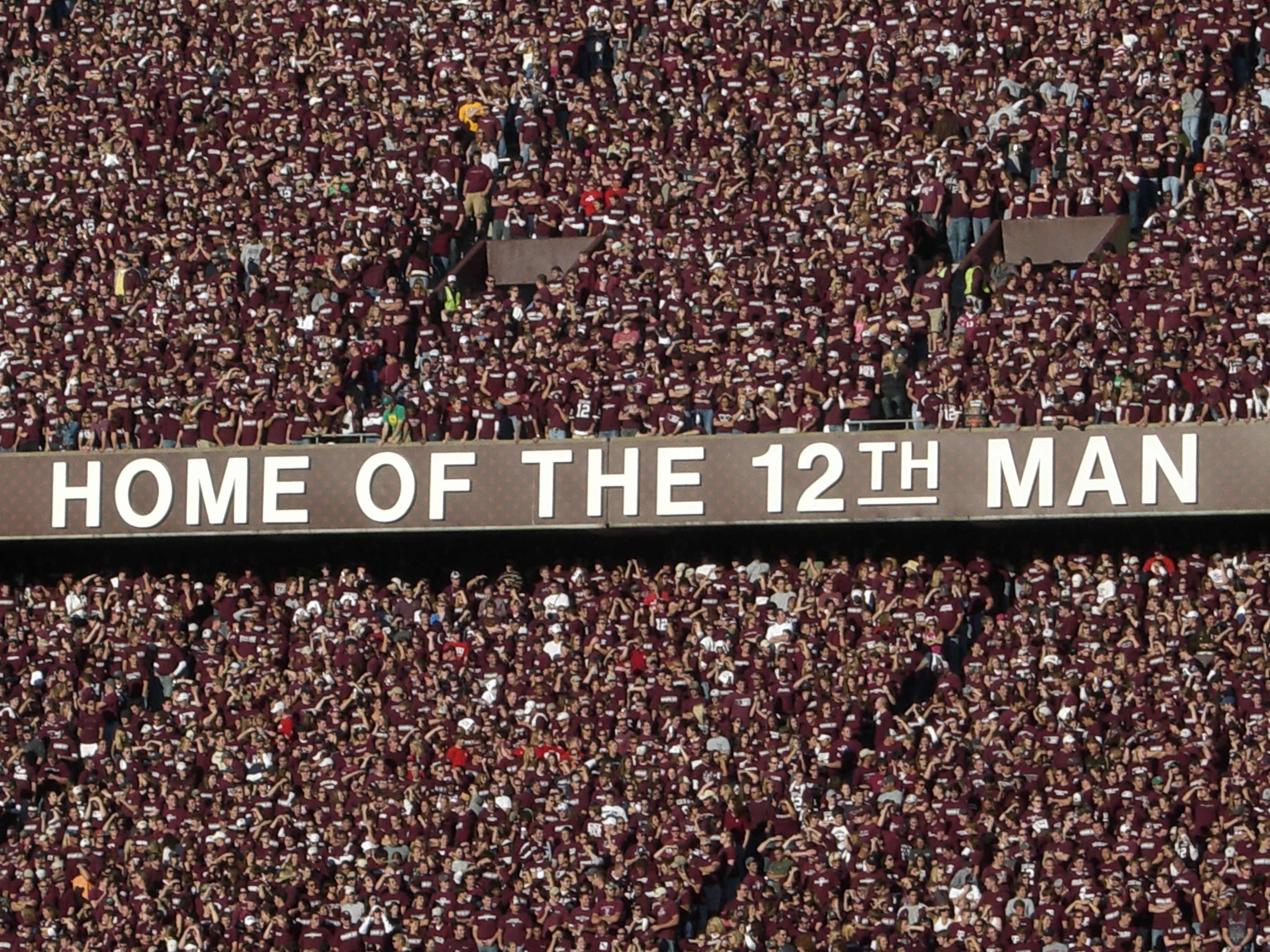 "Home of the 12th Man" trademark slogan at Kyle Field